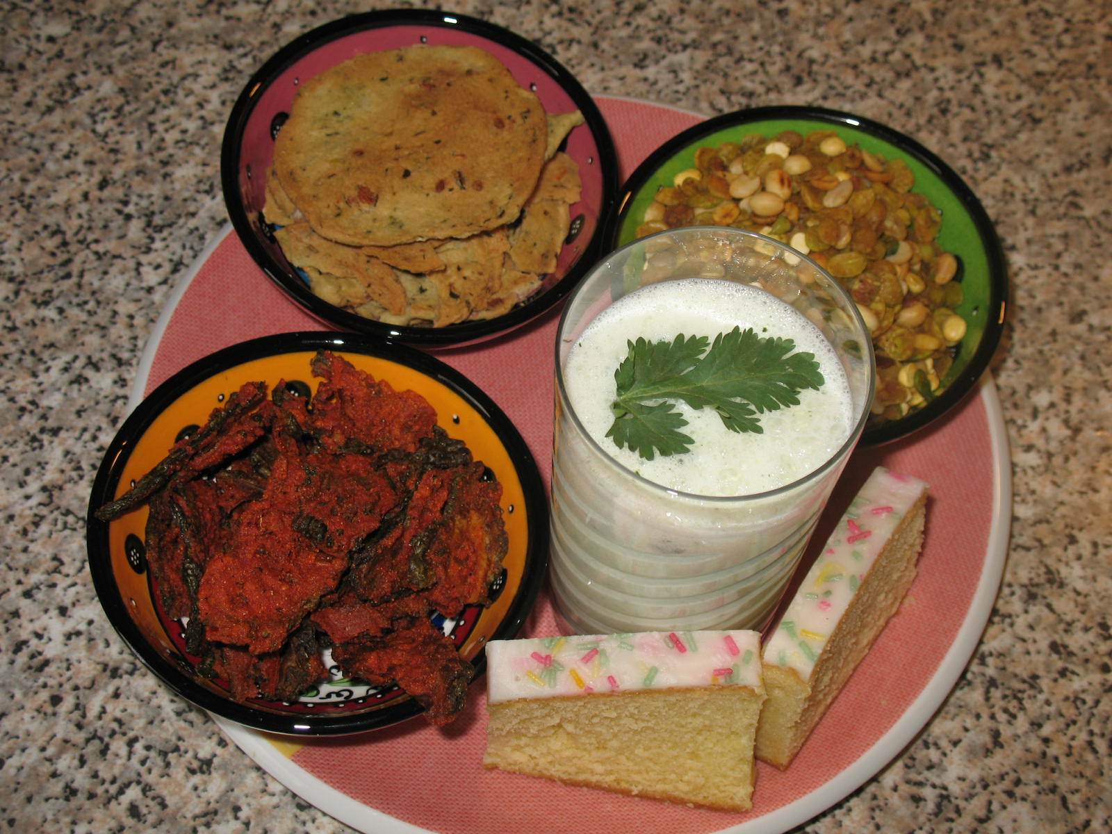 Masala Buttermilk or chaas